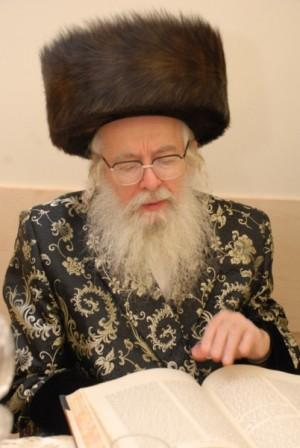 Rabbi Eliezer Shlomo Schik